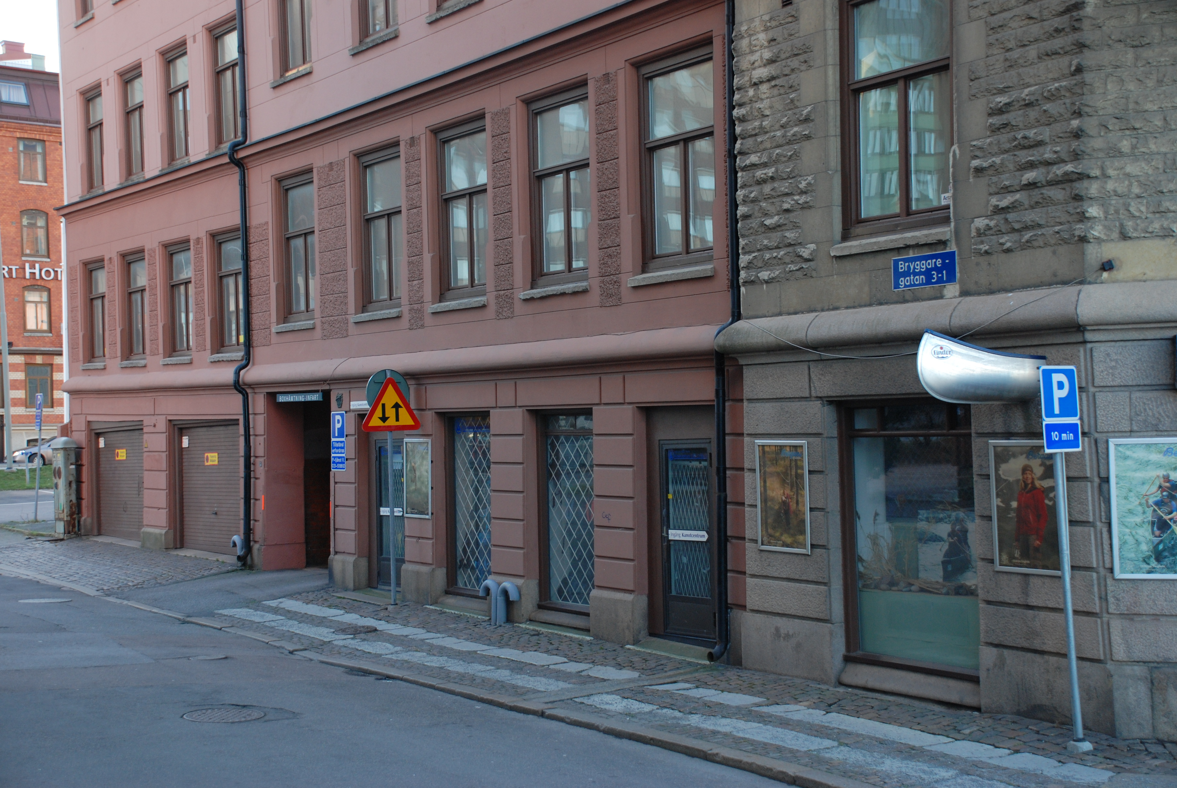 Bryggaregatan 1 (the Merkur house) at Skeppsbron in Göteborg.